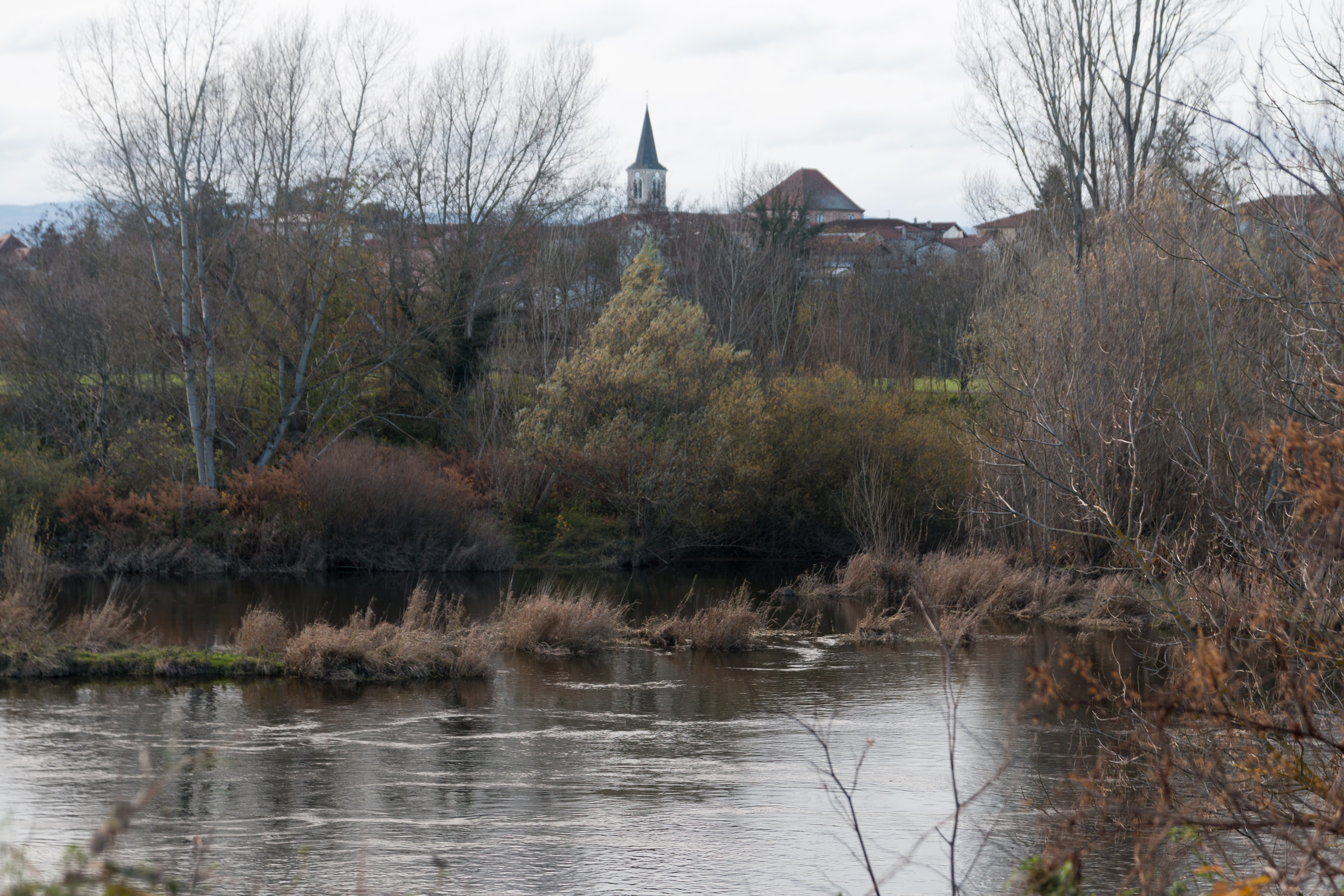 The village Saint-Cyprien, sawn from the Loire's bank.